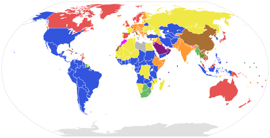 World's states coloured by form of government as of 2011 There's below a list of colors with the system of government. blue - presidential republics, full presidential system green - presidential republics, executive presidency linked to a parliament yellow - presidential republics, semi-presidential system orange - parliamentary republics red - parliamentary constitutional monarchies in which the monarch does not personally exercise power magenta - constitutional monarchies in which the monarch personally exercises power, often alongside a weak parliament purple - absolute monarchies brown - republics whose constitutions grant only a single party the right to govern olive - military dictatorships Note that several states constitutionally deemed to be multiparty republics are broadly described by outsiders as authoritarian states. This chart aims to represent de jure form of government, not de facto degree of democracy. Those more interested in a version reflecting such judgements may be interested in Image:Form of government with Freedom House.png.